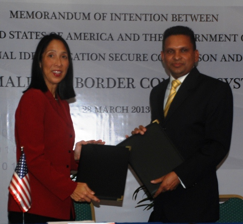 U.S. Ambassador Michele J. Sison with Maldives Minister of Defense Mohamed Nazim after signing the Memorandum of Intention to provide a computerized and biometrically capable border security program, known as PISCES (Personal Identification and Secure Comparison and Evaluation System) at mutually agreed ports of entry.